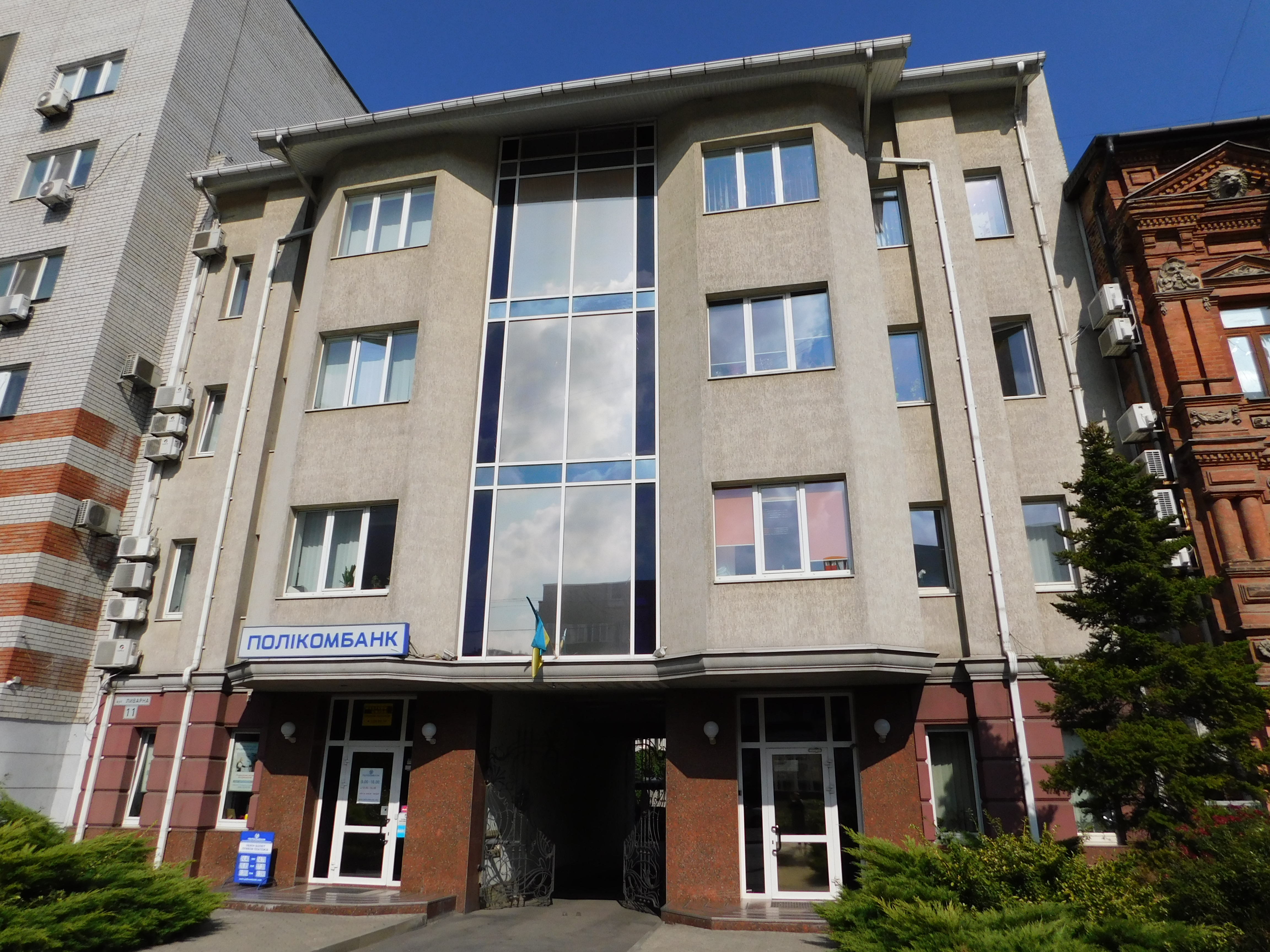 Polikombank; Dnipro, Ukraine; 20.09.19